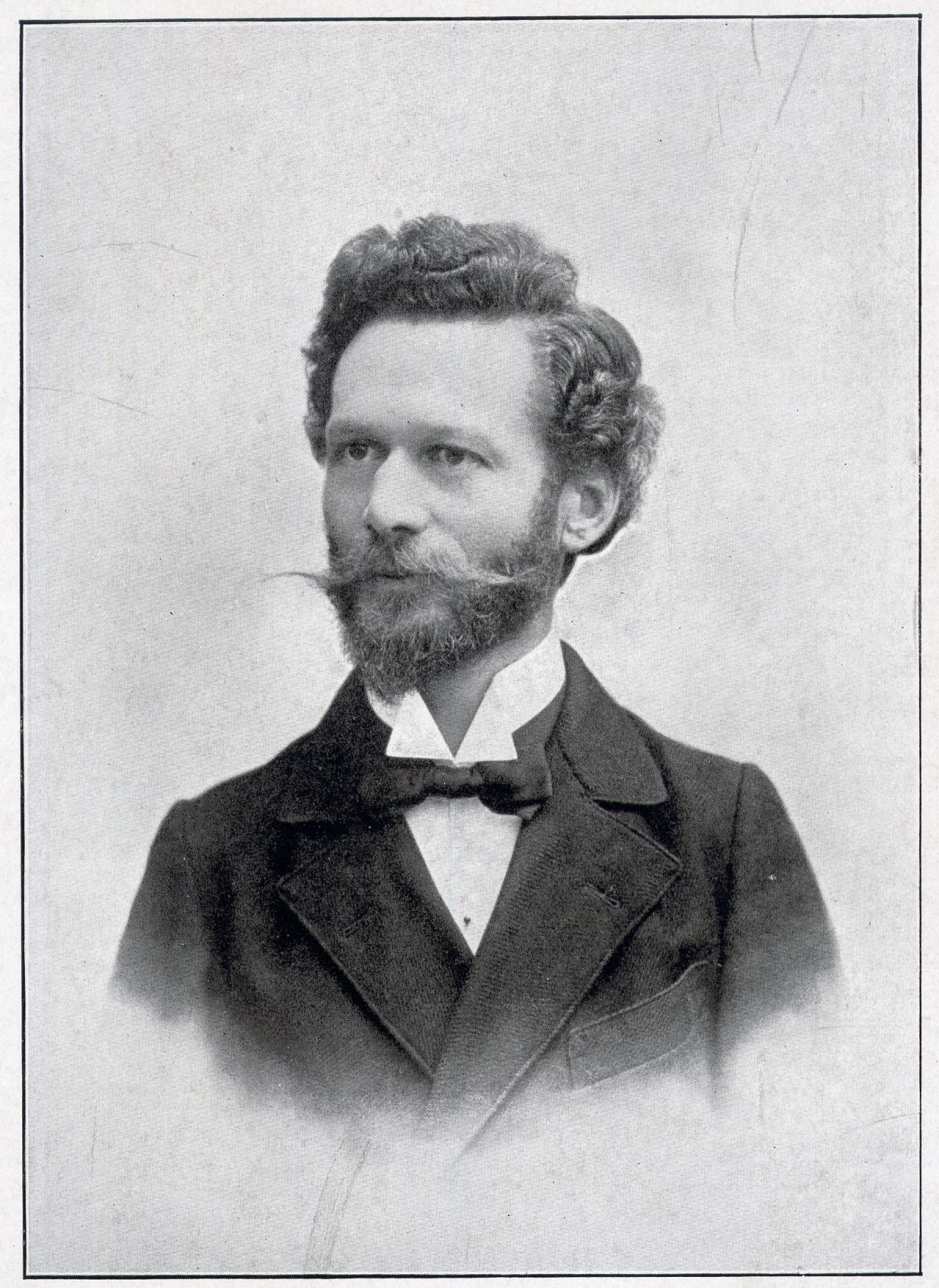 Portrait of Eugen Sutermeister, the founder of Sonos. Sonos is the Swiss umbrella organization for the deaf and for organizations for the hearing-impaired. It was founded in 1911 as a Swiss deaf-and-dumb person's association. The name Sonos signifies sound, tone.